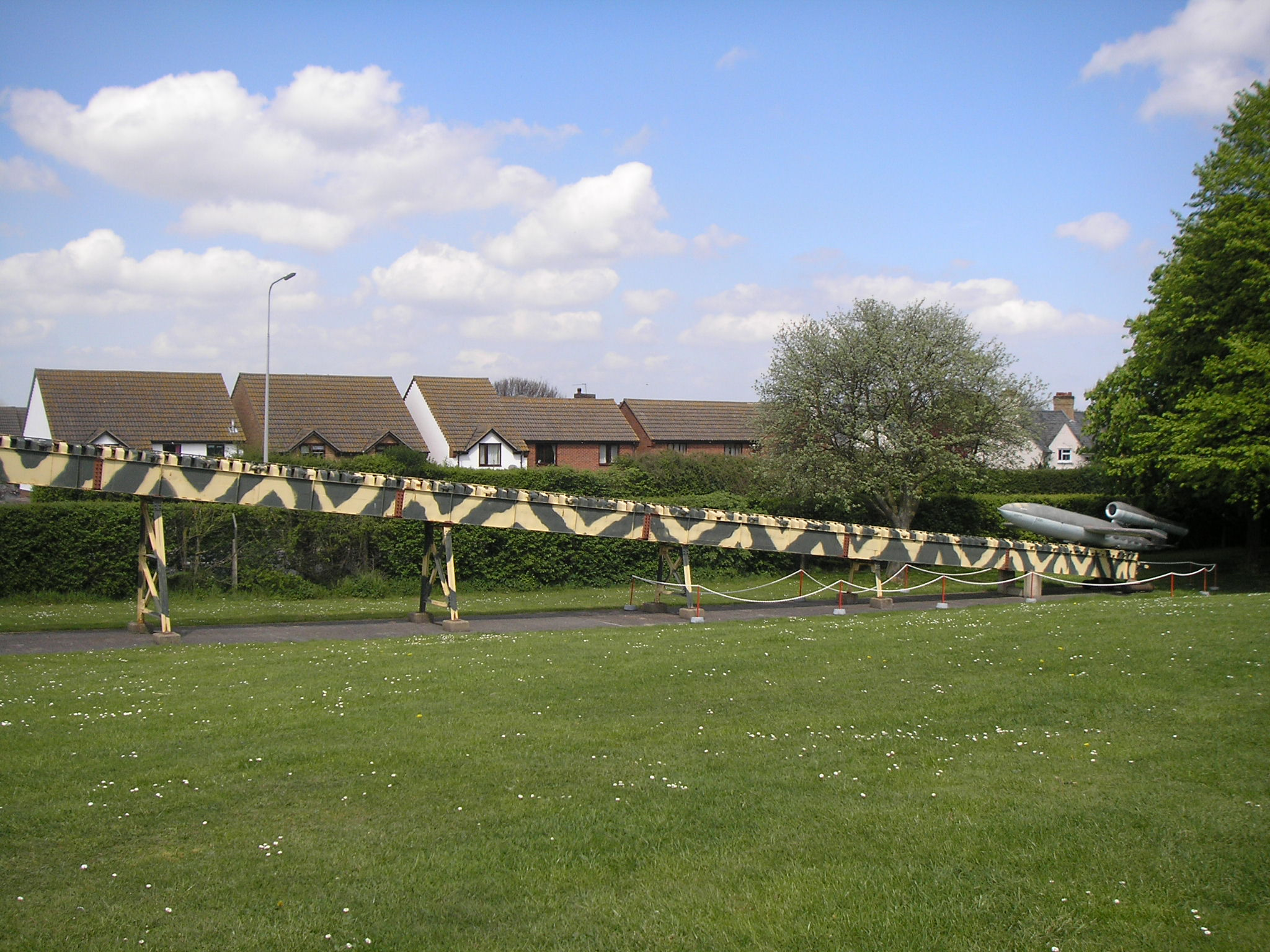 A V-1 missile on a launch rail at Imperial War Museum Duxford during May 2006